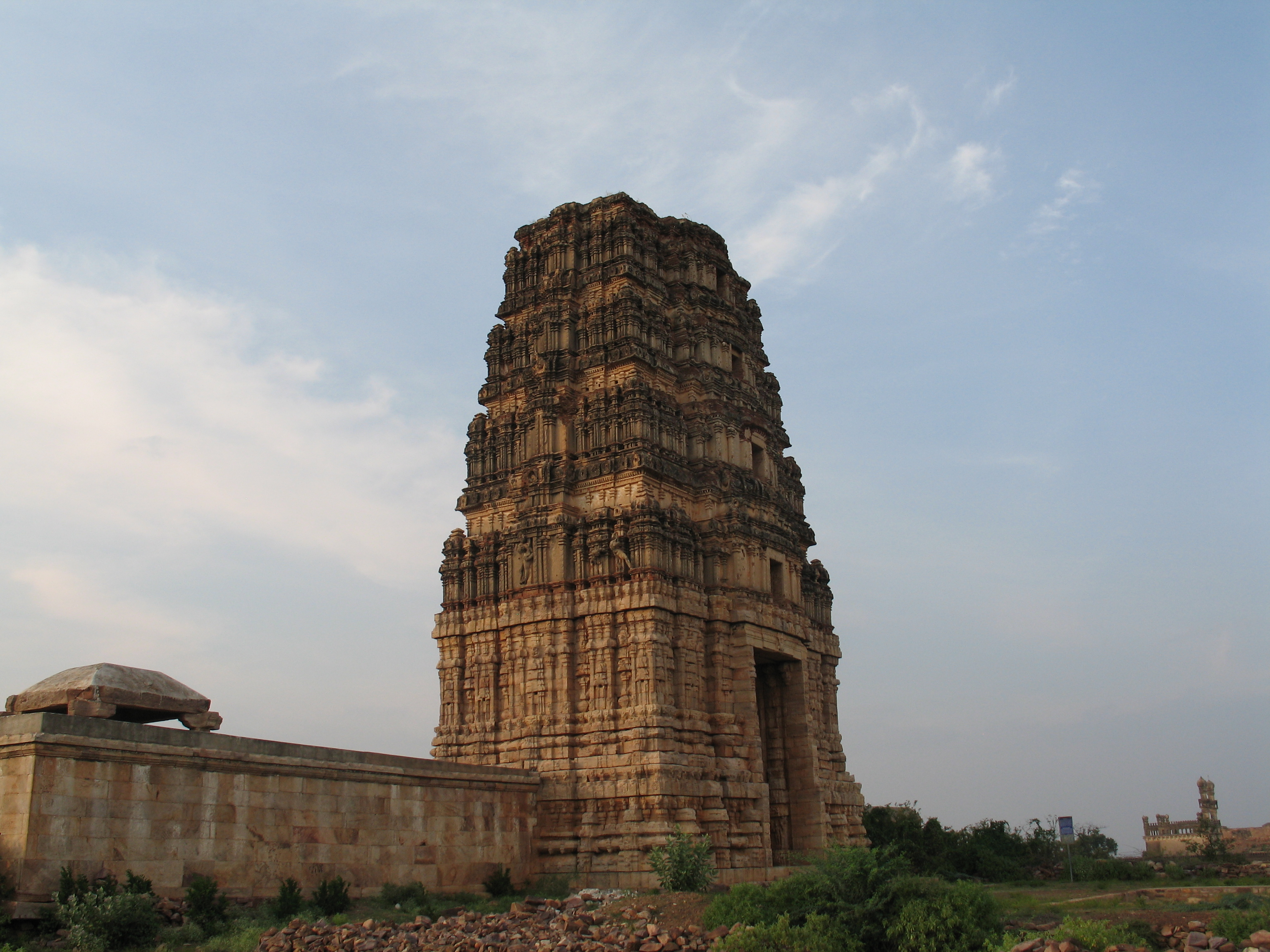 The Madhavaraya Temple in Gandikota Fort